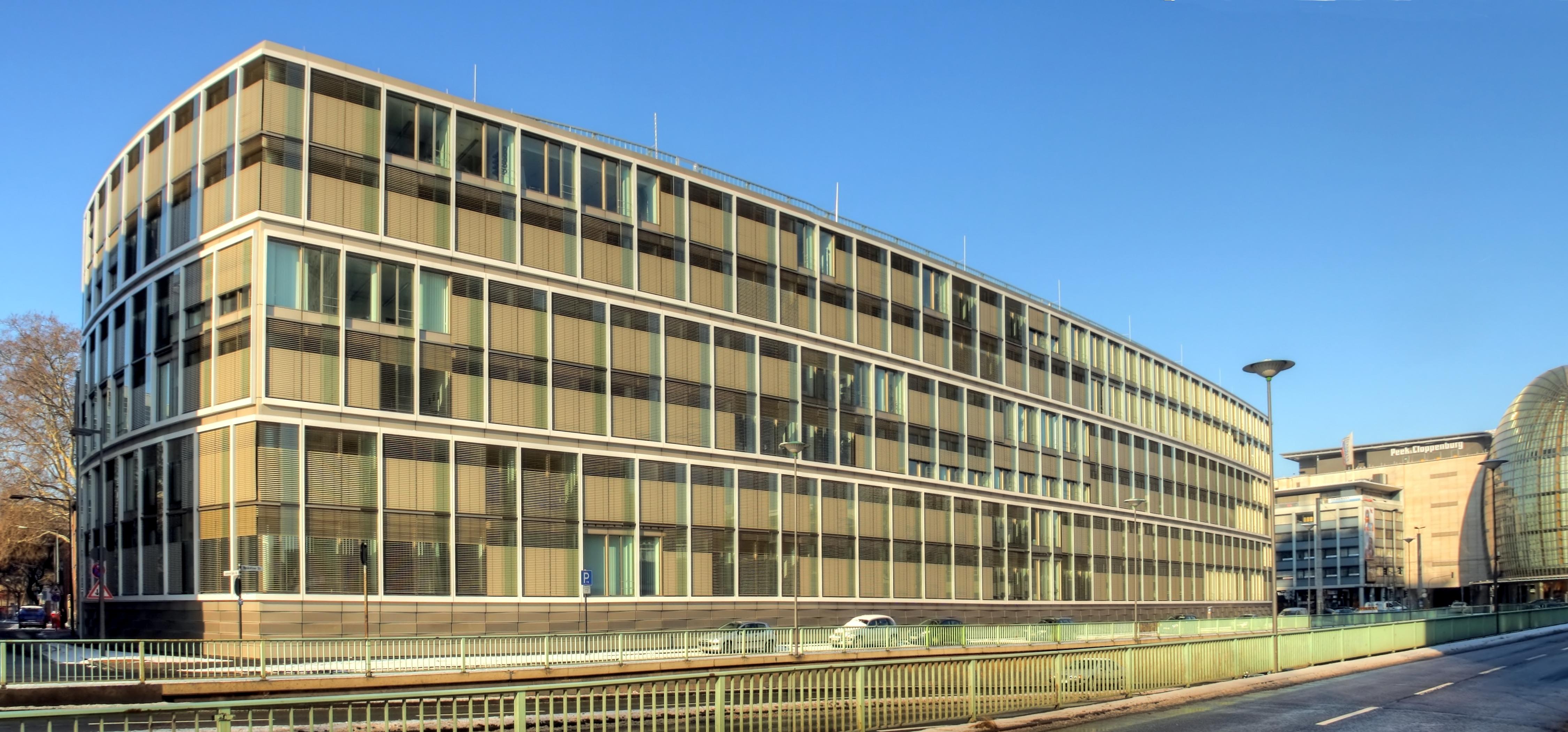 Office building "Cäcilium", Cologne. View from Neuköllner Str.